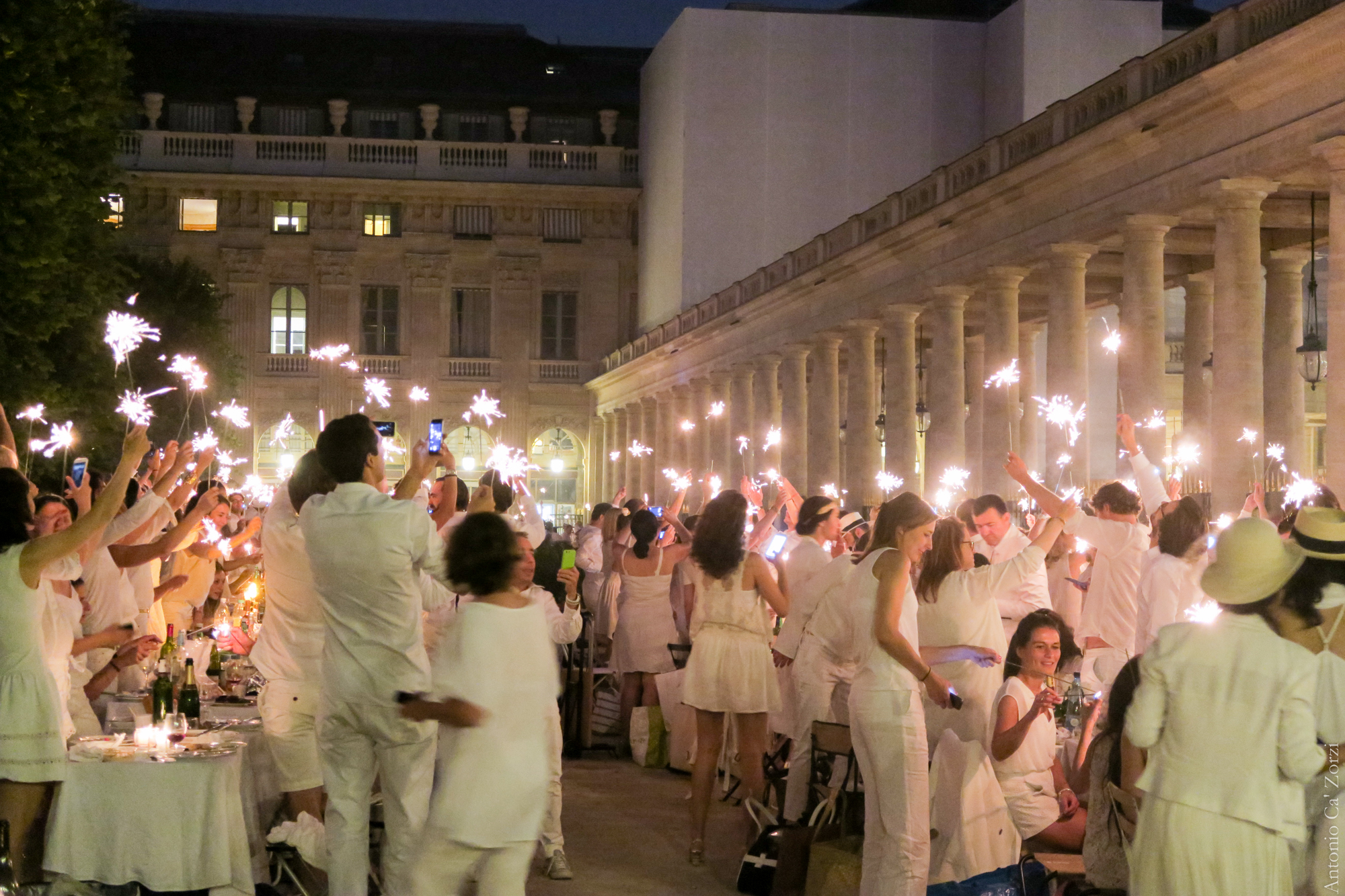 Dîner en Blanc in the Palais-Royal, Paris, 11 June 2015.